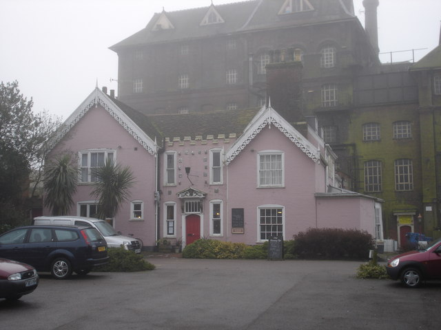 The Brewery Tap, Cliff Quay. With the old brewery 257530 looming above.